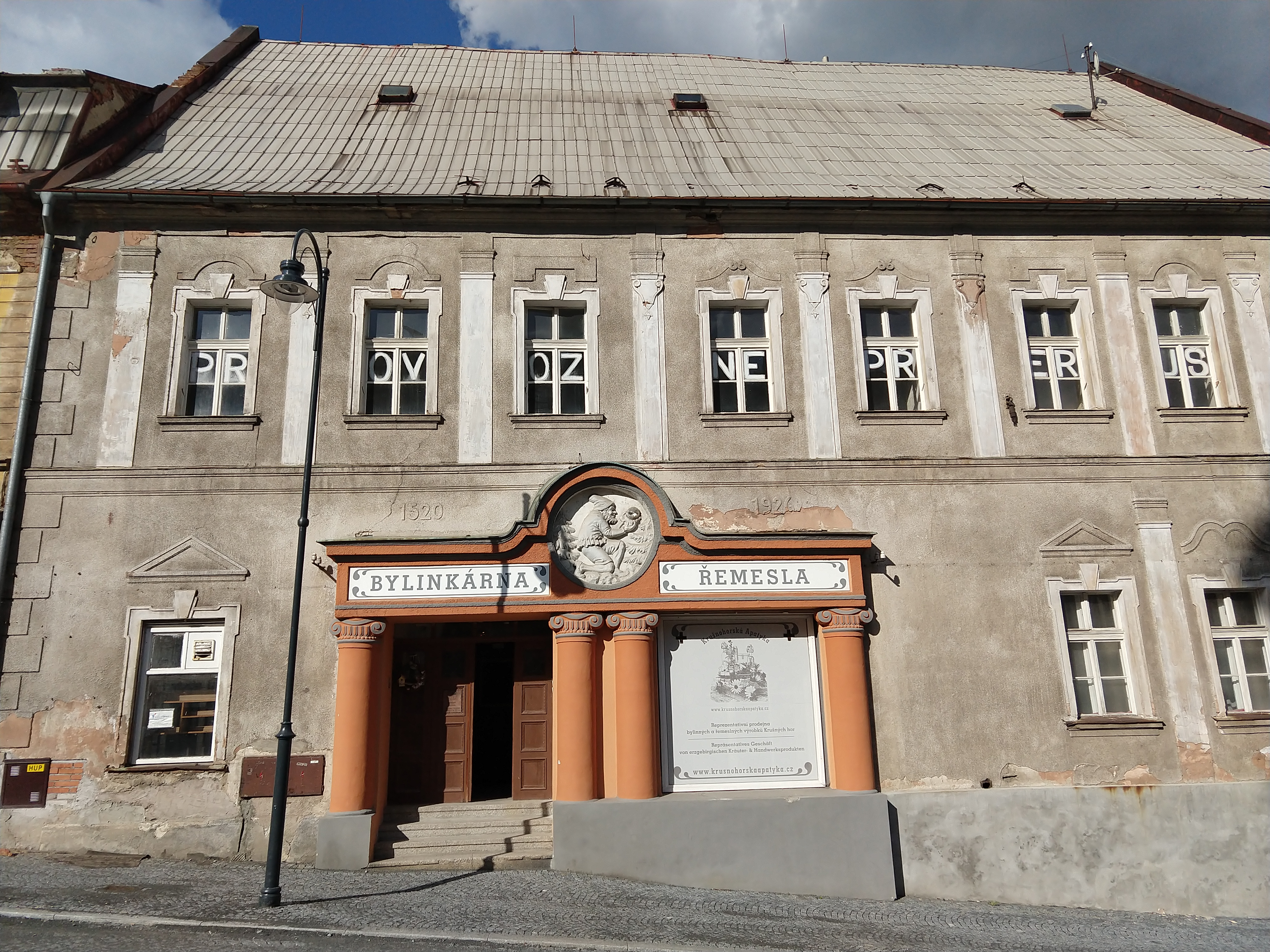 Pharmacy in Jáchymov.